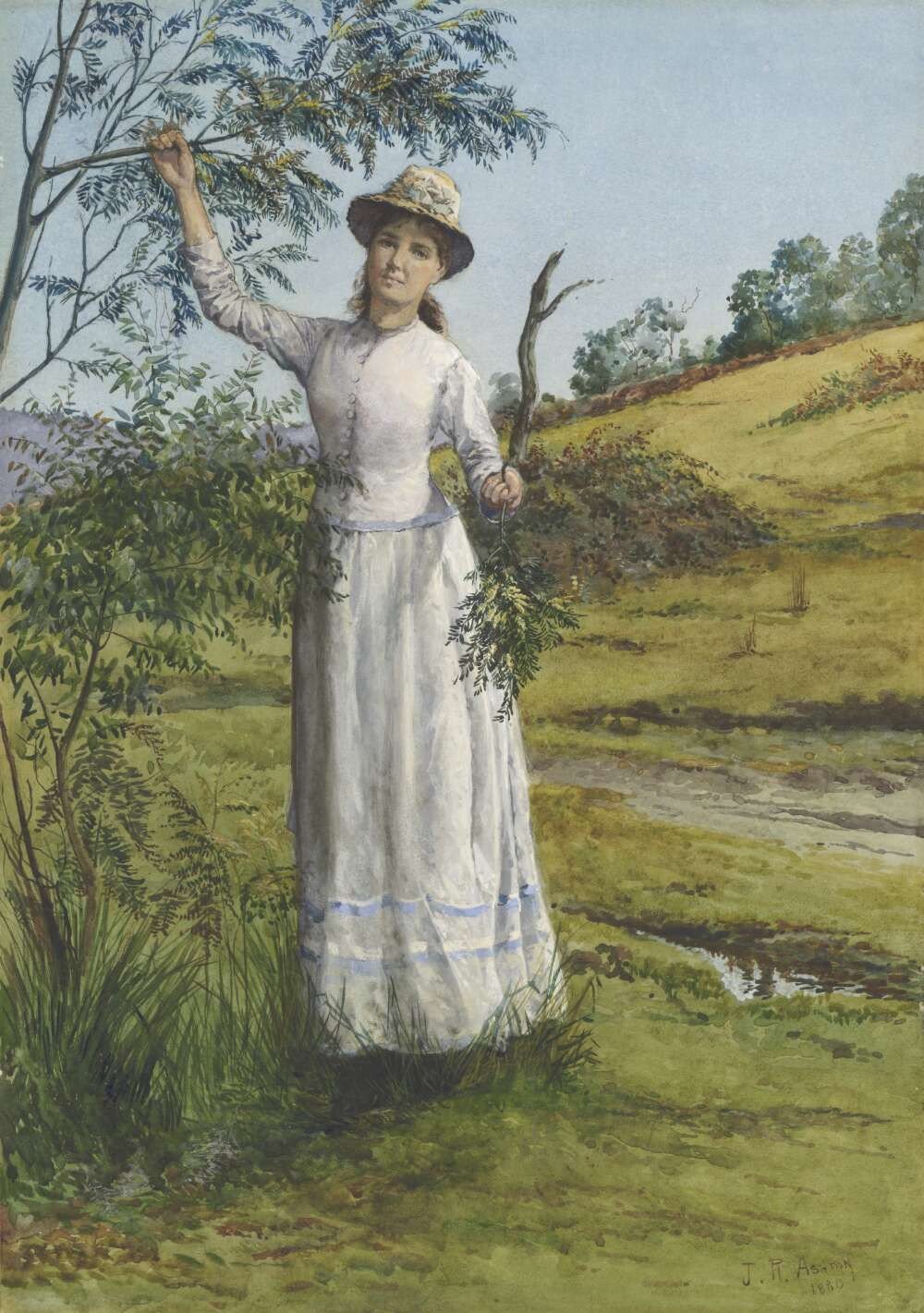 A painting of Eliza Ann Ashton standing under a wattle in New South Wales, Australia by her husband, Julian Rossi Ashton